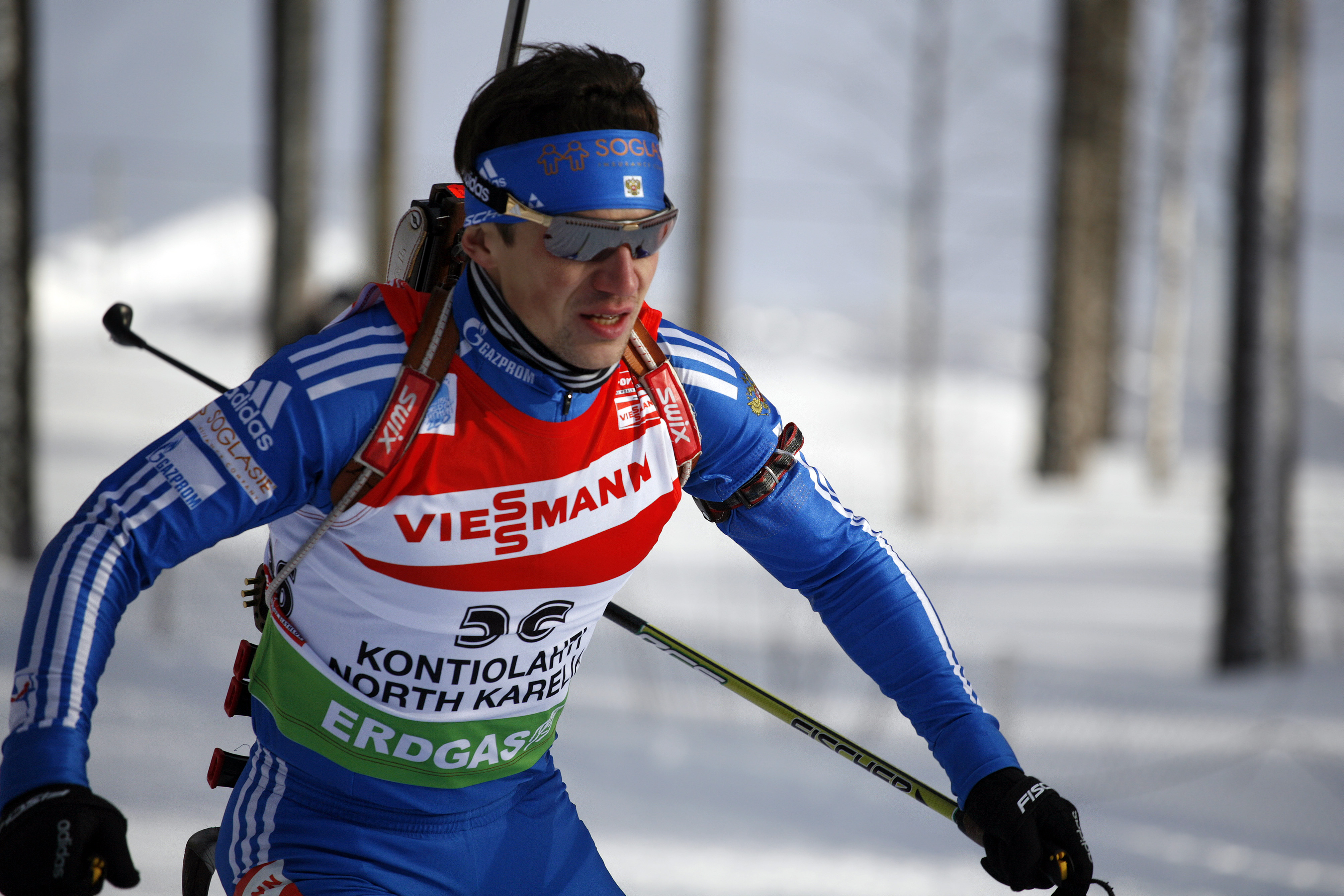 Maxim Tchoudov. Men 10 km sprint, 13 march 2010, Kontiolahti.